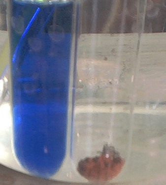 Fehling reaction